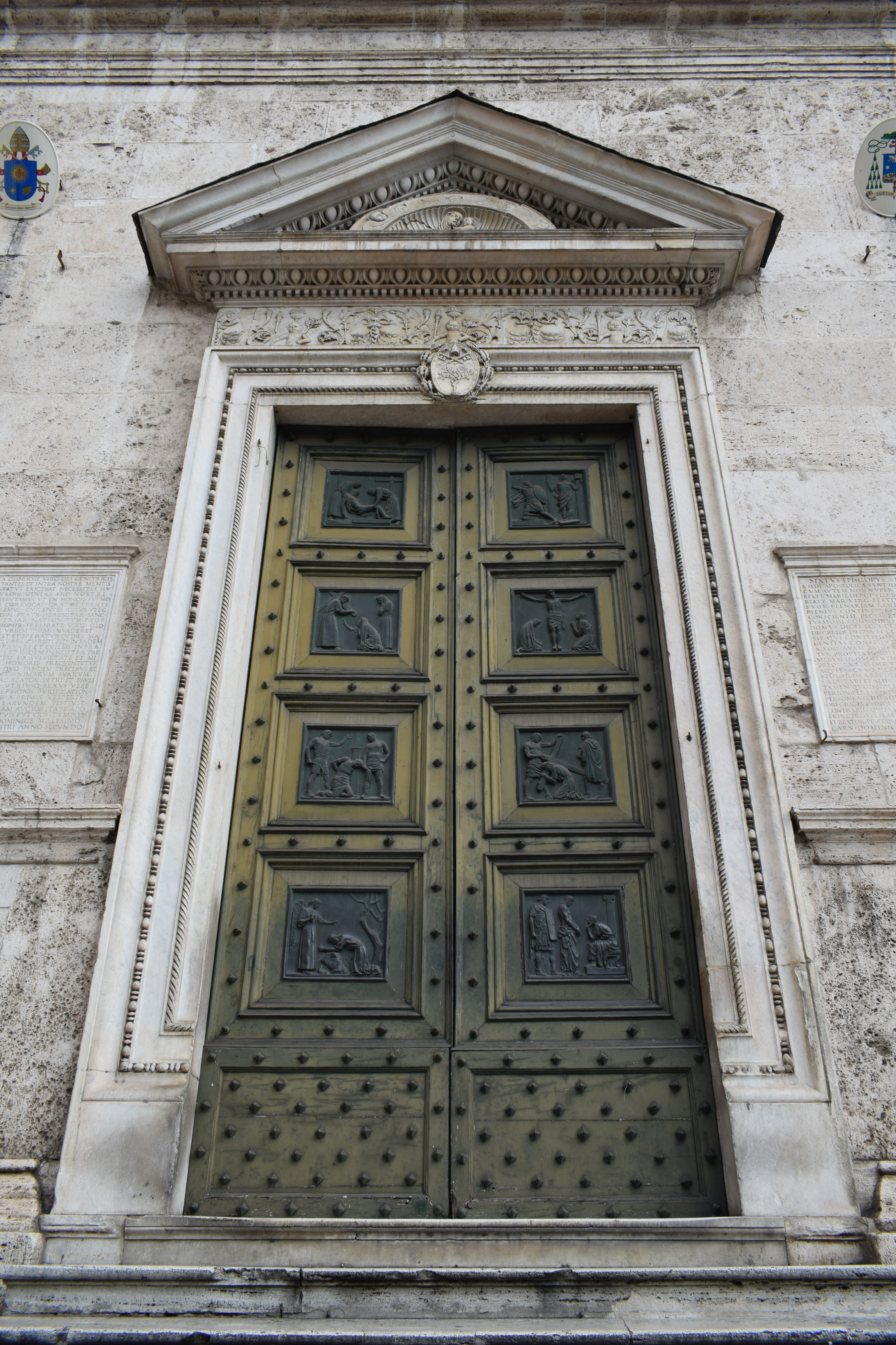 The main door of the Basilica of Santa Maria del Popolo